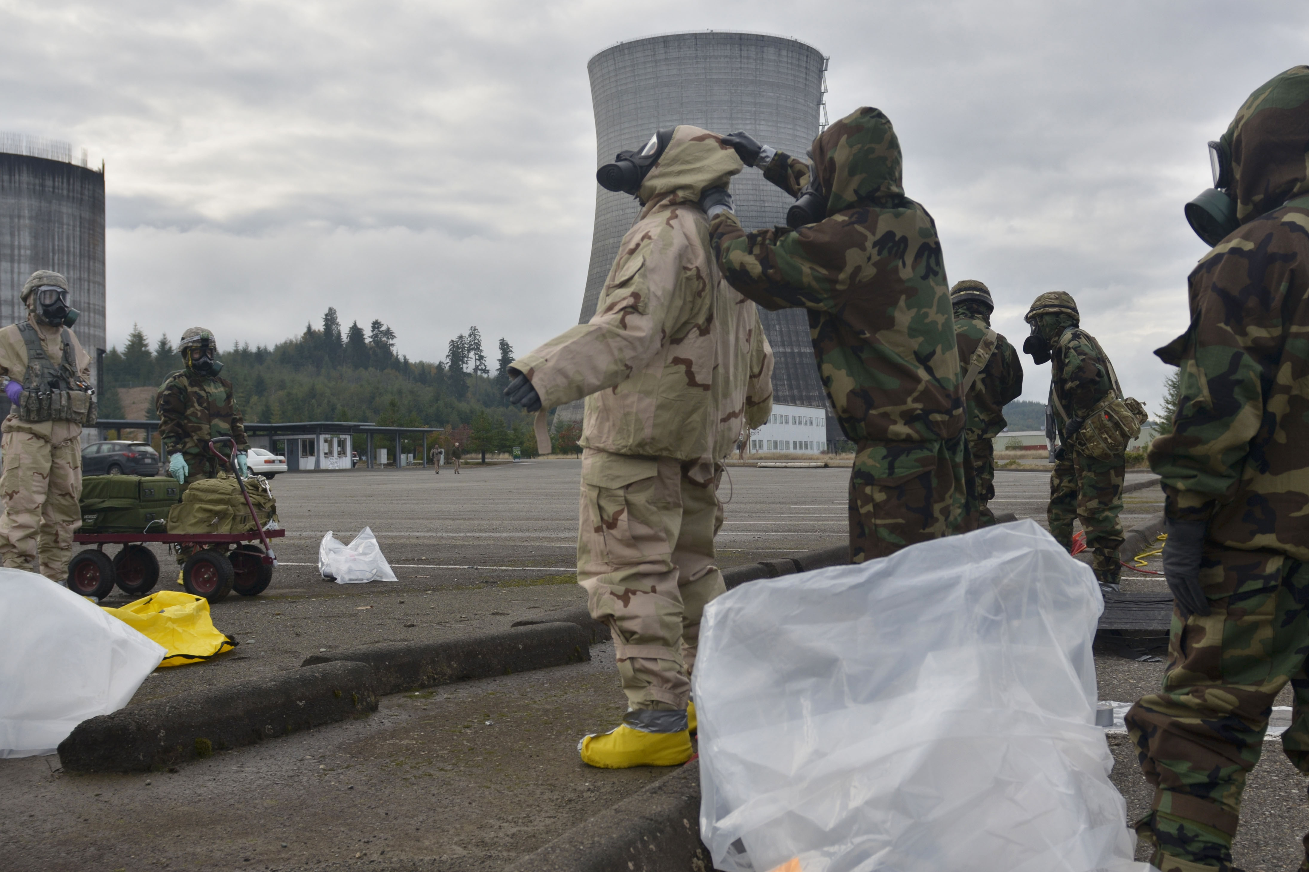 Soldiers of the 11th Chemical Company, 110th Chemical Battalion, combine with airmen of the 26th and 27th Squadron, Royal Air Force Regiment, to conduct decontamination operations at the Satsop Business Park in Elma, Wash., Oct. 25, 2012. The combined units worked together to complete missions involving simulated explosive and chemical hazards.